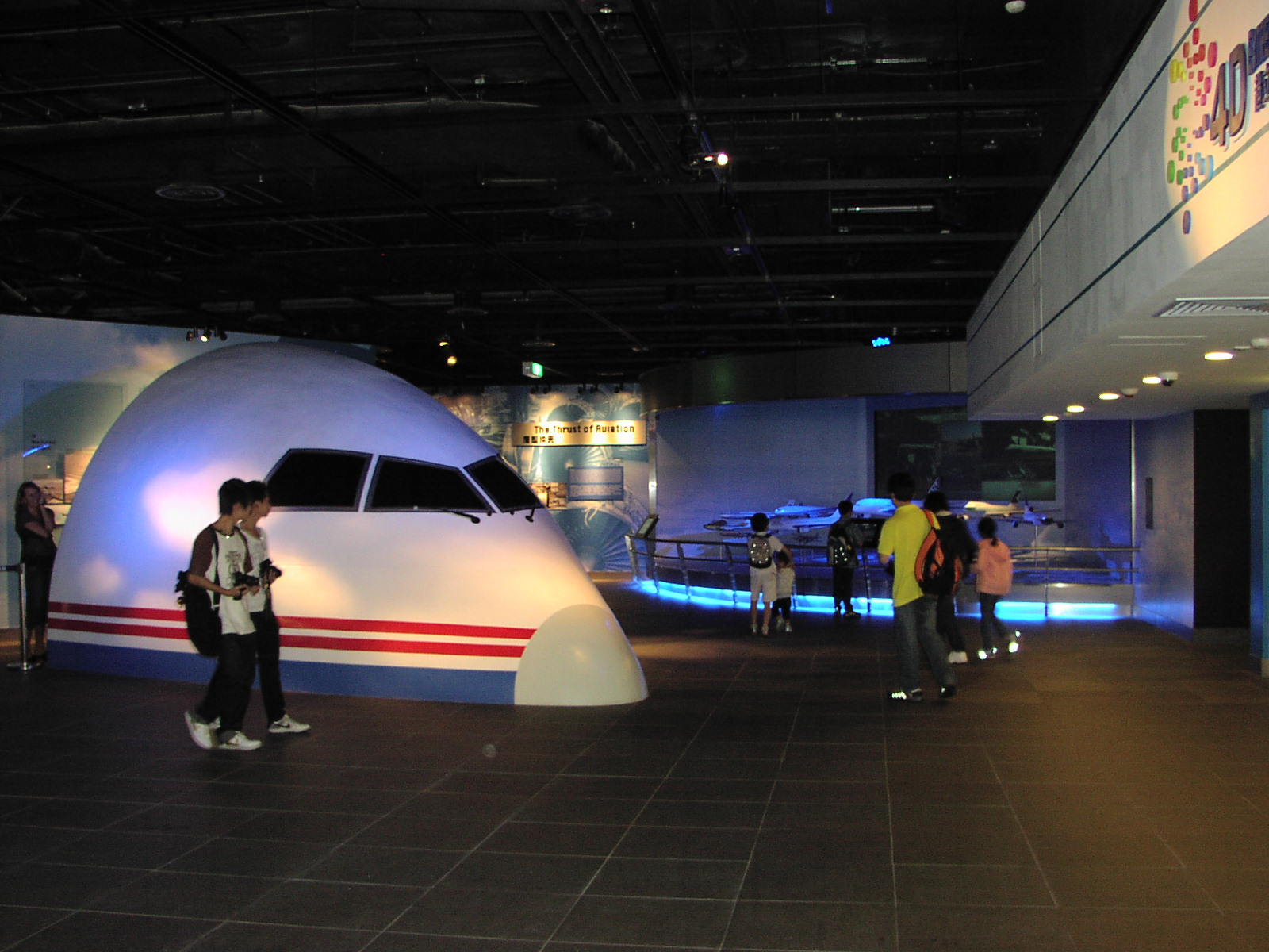 Aviation Discovery Centre